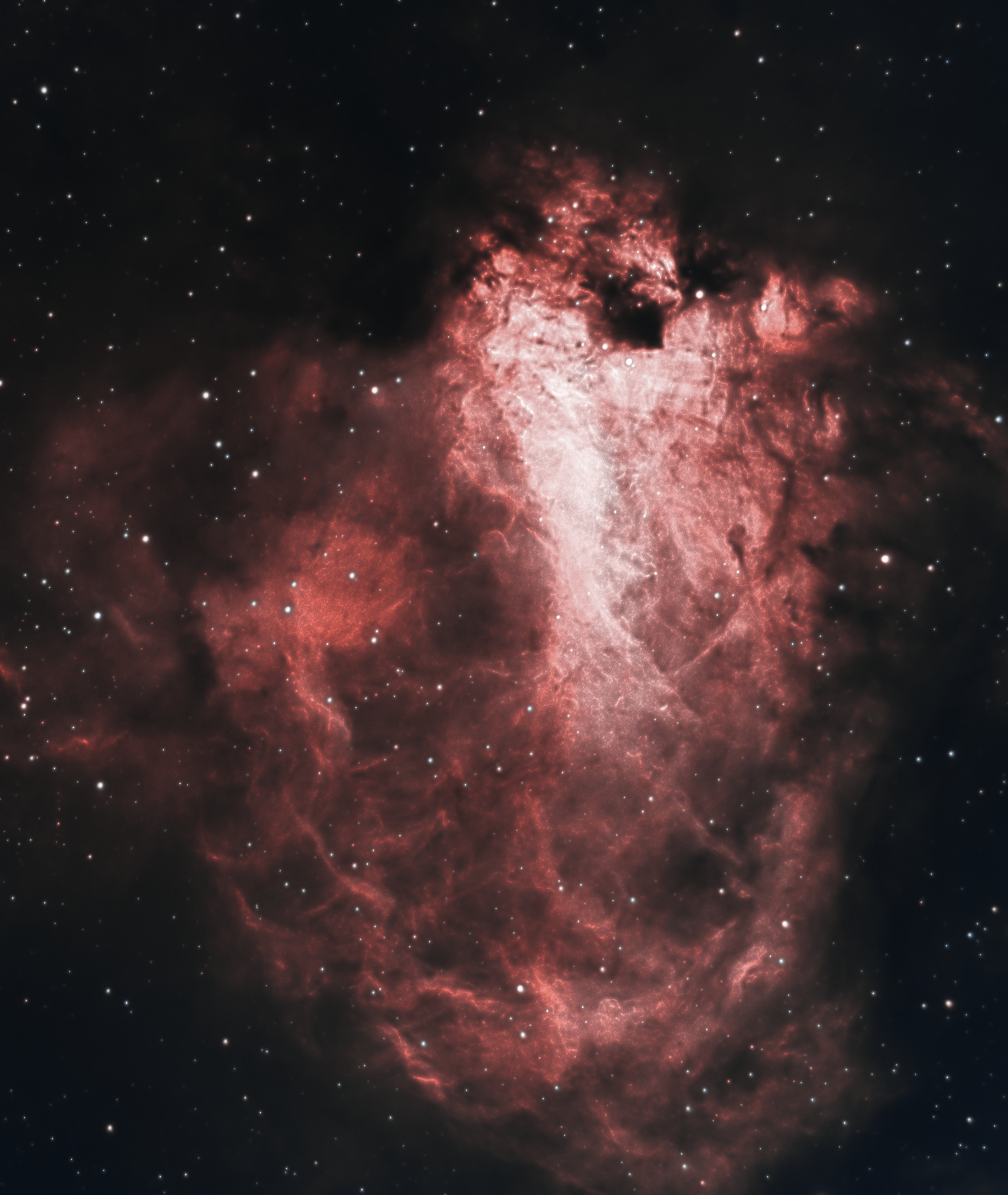 The Omega Nebula (M17) was created using Ha and OIII filters. I put Ha in the "Red Channel" and OIII "Green and Blue Channels". Target: Omega Nebula (M17) Imaging Telescope: Celestron NexStar 8SE (1280 focal length) Focal Reducer: f/.63 Mount: Celestron CGX Polar Alignment: QHYCCD PoleMaster Imaging Camera: ZWO ASI1600MM-Cool Filters: Ha=30x180s OIII=30x180s Total Exposure Time: 3 hours Gain: 139, Offset: 21 Guide scope: Orion ST80 Guide Camera: Lodestar X2 Guide Software: PHD2 Calibration Frames: Darks: 50, Bias: 50, Flats: 50 Capture software: Sequence Generator Pro (SGP) Stacking software: PixInsight Post Processing: PixInsight, PhotoShop Dew Shield, Dew Heater Strip